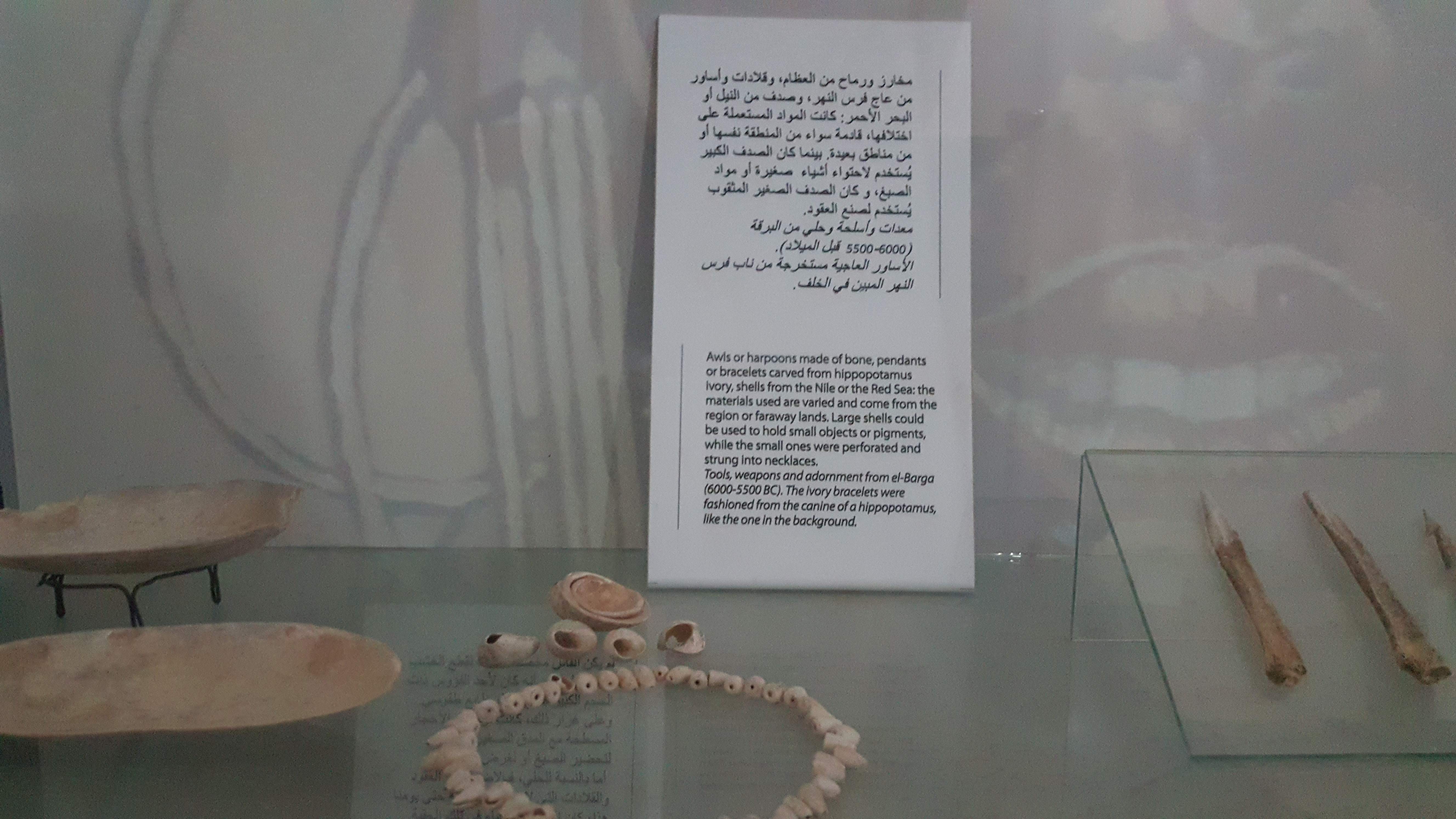 Tools, Weapons and adornments from el-Barga (6000-5500 BC)